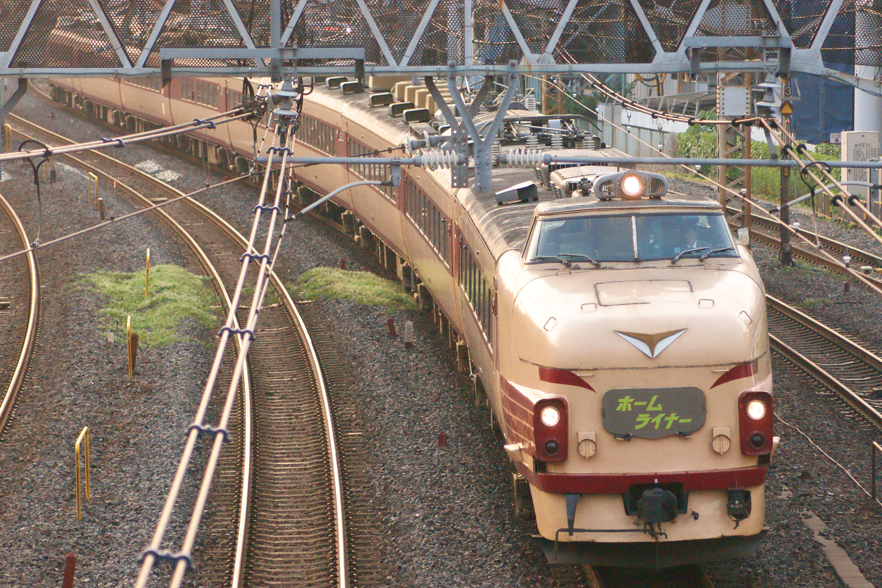 JR West(previously JNR) 489 series electric car, "Home liner Konosu".